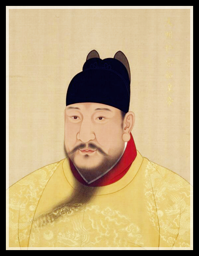 Portrait of Emperor Renzong of Ming Dynasty China